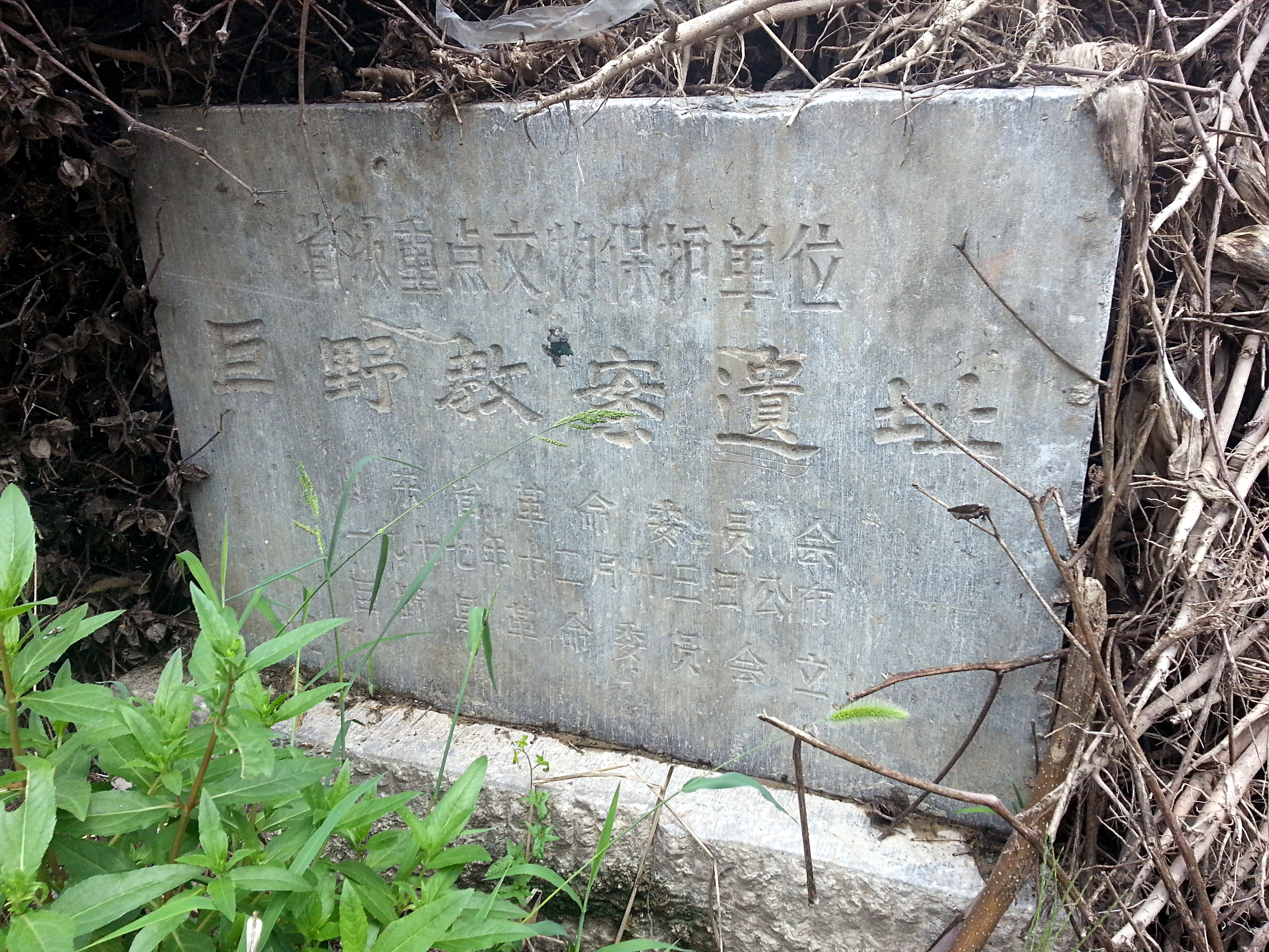 Photograph of the road-side marker at the site of the Juye Incident.